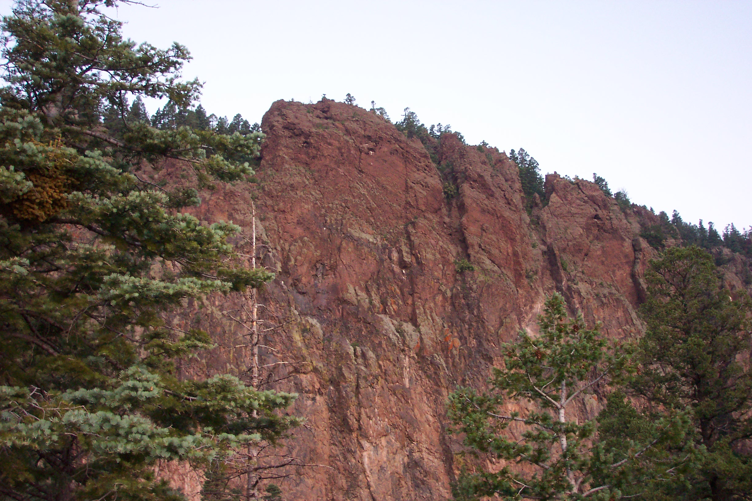 Created by myself.